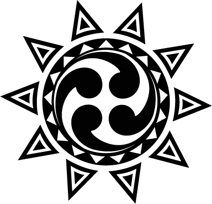 Solar symbol of the Native Polish Church (ten-rayed sun with four-fold "tomoe"-type quasi-swastika symbol in center)